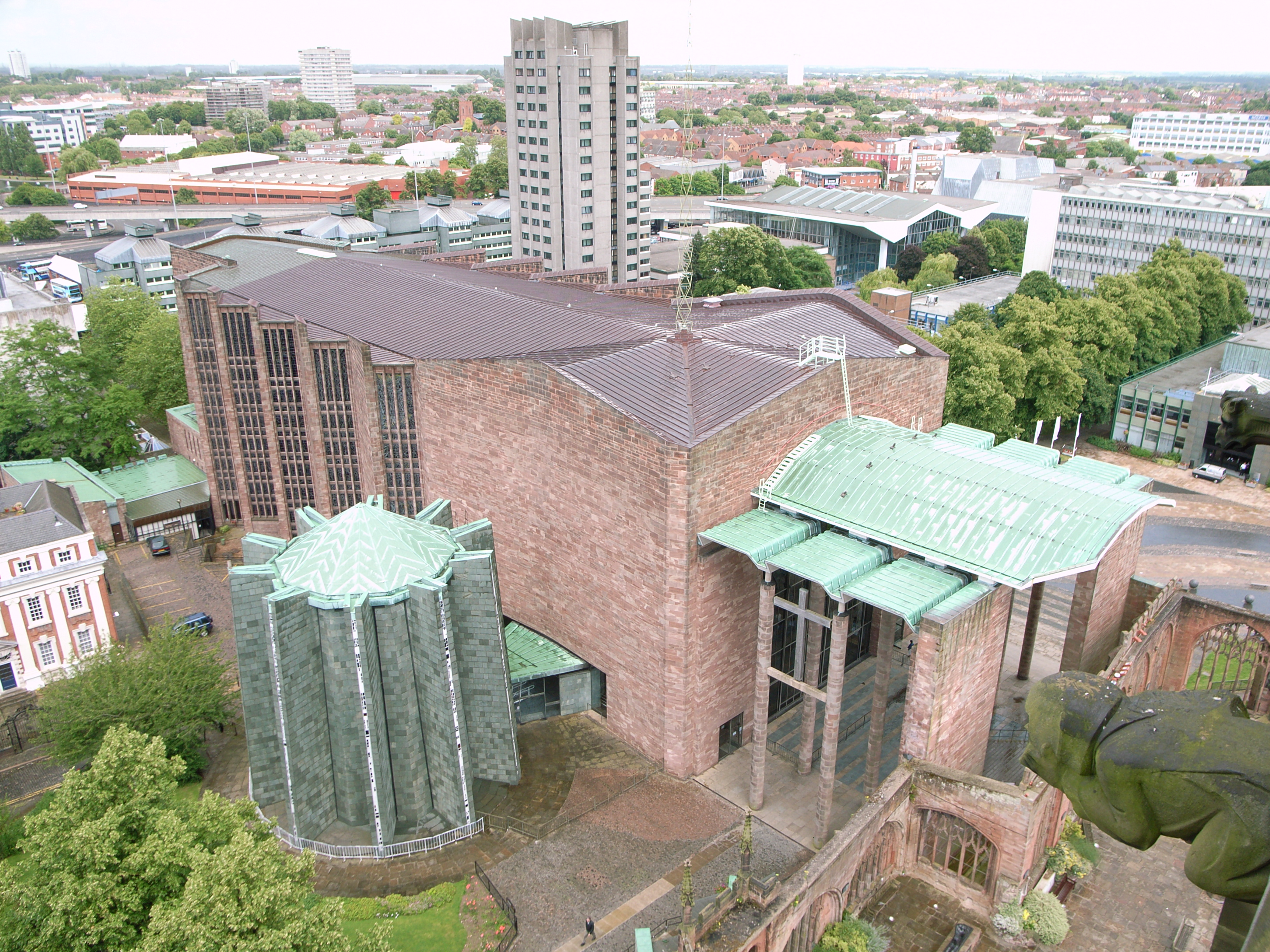 The modern Coventry Cathedral, Coventry, West Midlands, England, seen from the west tower of the old cathedral